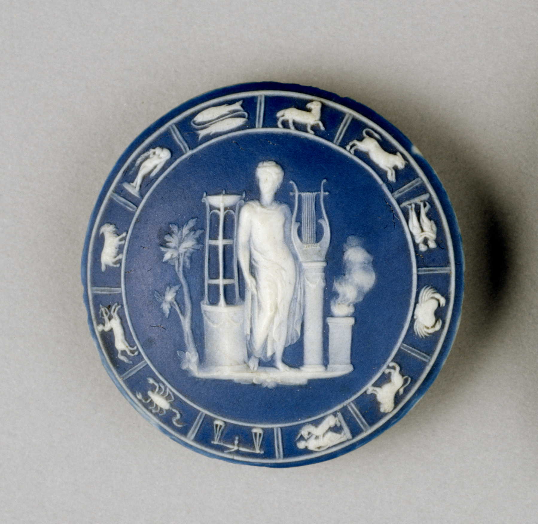 In 1774, Josiah Wedgwood (1730-95) introduced the unglazed jasperware with white relief decoration on pastel or black backgrounds for which the firm became famous. The technique was used for ornamental cameos that appealed to the late 18th-century passion for ancient cameos and intaglios. This circular dark blue medallion depicts the god Apollo with his lyre and tripod surrounded by a Zodiac border.